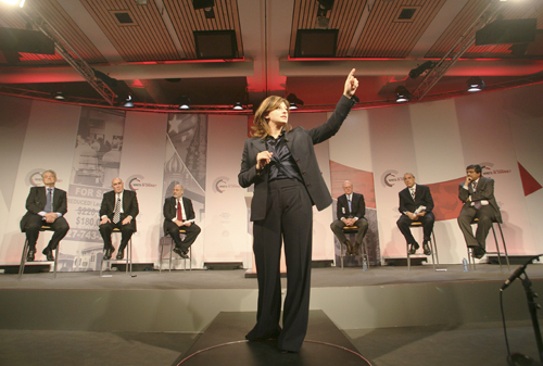 DAVOS/SWITZERLAND, 23JAN08 - George Soros, Chairman, Soros Fund Management, USA (FLTR), Ibrahim S. Dabdoub, Chief Executive Officer, National Bank of Kuwait, Angel Joseph E. Stiglitz, University Professor, Columbia University, USA, Mderator: Maria Bartiromo, Anchor, CNBC's Closing Bell, and Host and Managing Editor, Wall Street Journal Report, CNBC, USA, John W. Snow, Chairman, Cerberus Capital Management, USA, Gurría, Secretary-General, Organisation for Economic Co-operation and Development (OECD), Paris, Nandan M. Nilekani, Executive Co-Chairman, Infosys Technologies, India; Member of the Foundation Board of the World Economic Forum, captured during the session 'CNBC Debate: Who's in Charge?' at the Annual Meeting 2008 of the World Economic Forum iin Davos, Switzerland, January 23, 2008